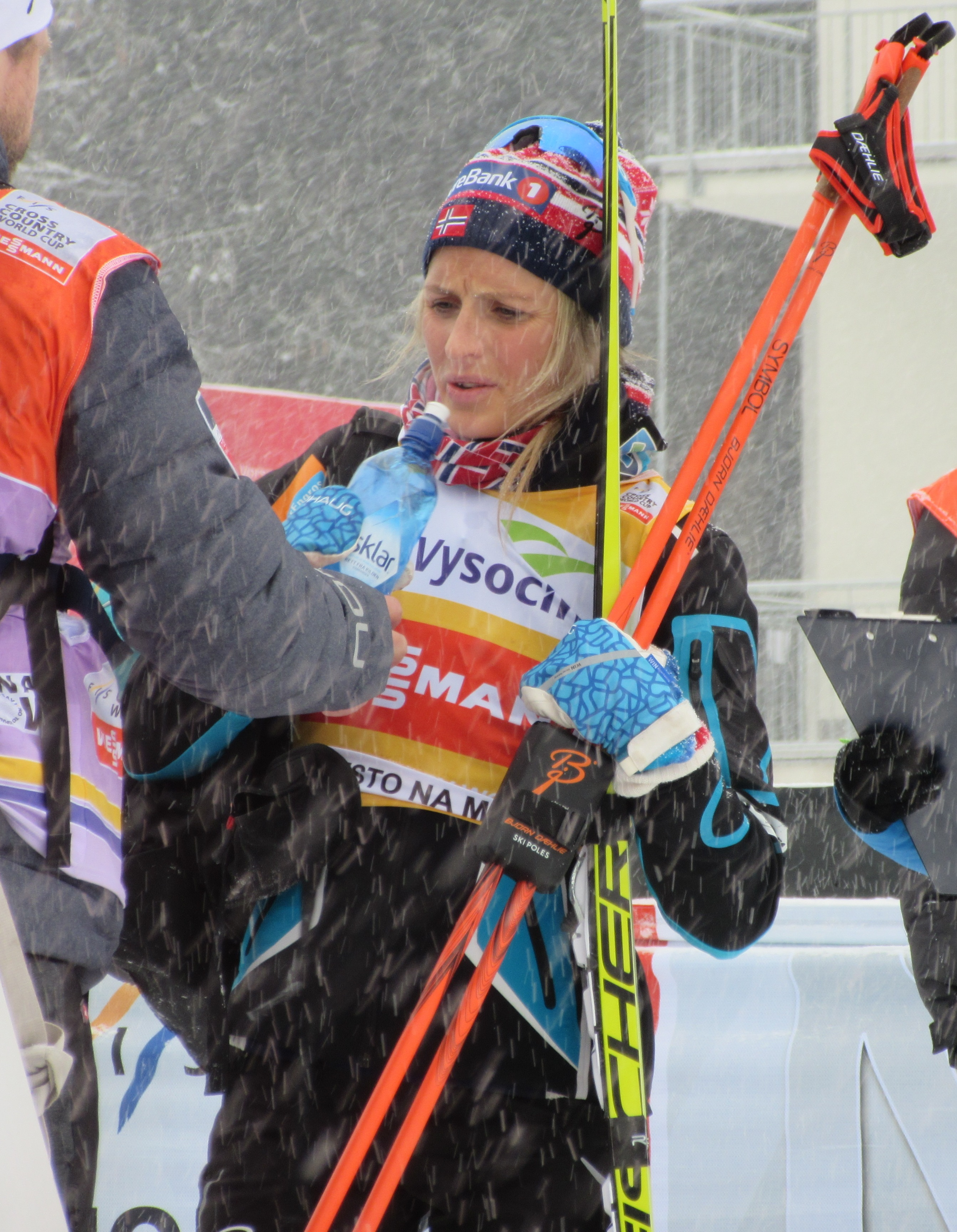 Therese Johaug after 10 km free race in Nové Město na Moravě in 2015/2016 World Cup season.